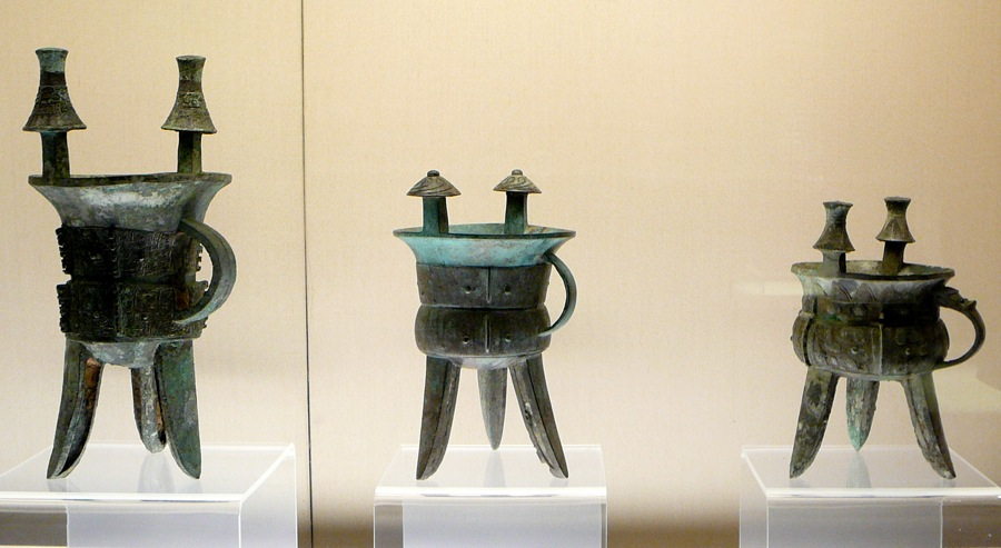 Three examples of the Jia, a type of ancient Chinese ritual wine vessel, from the middle of the Shang Dynasty (13th to 15h centuries before JC). In the collections of the Shanghai Museum